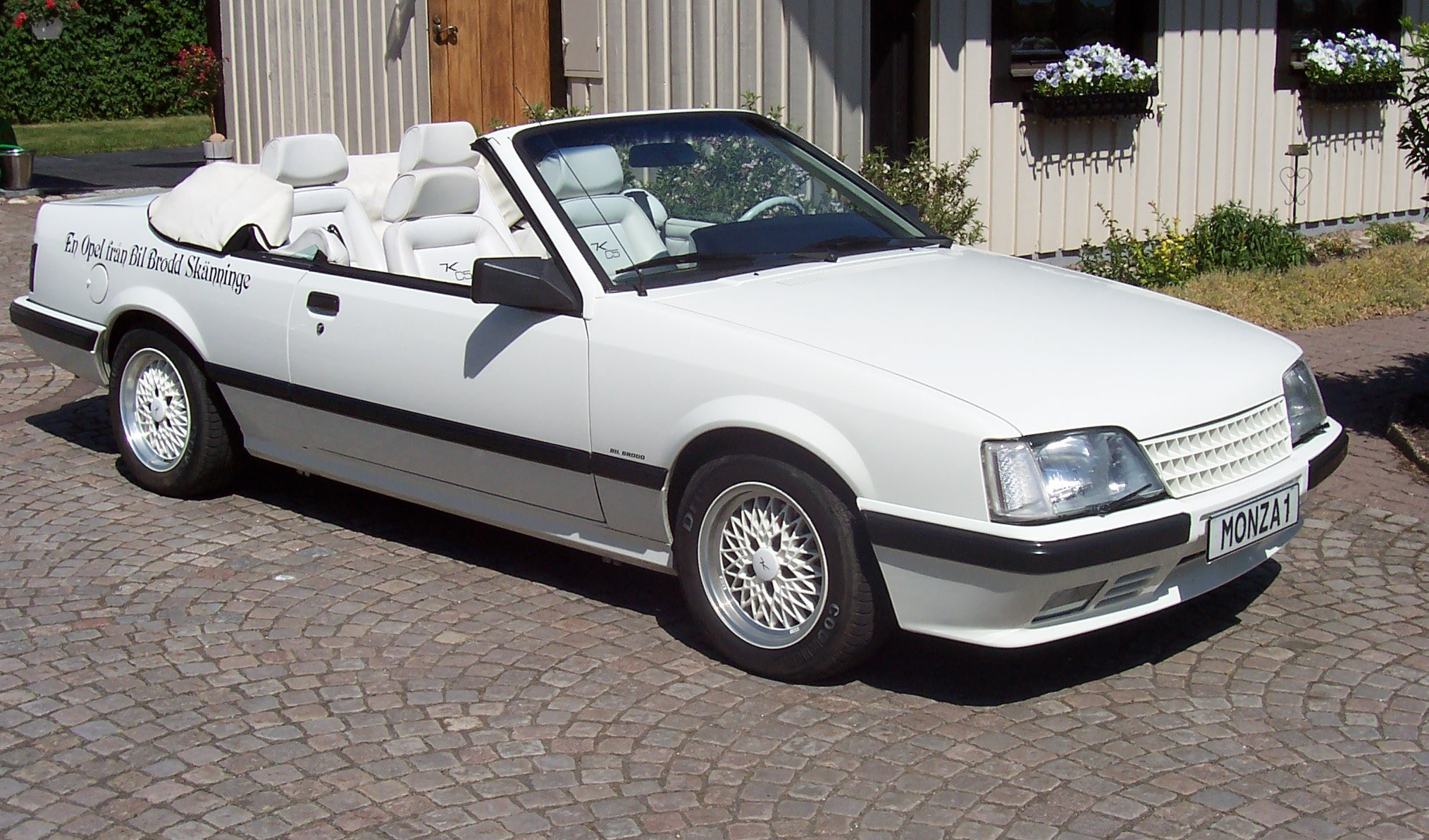 1985 Keinath Monza C5 cabriolet, Opel Monza convertible conversion. One of 55 in the world, this was used as a rolling advertisement by a local Opel dealer since at least 1994.